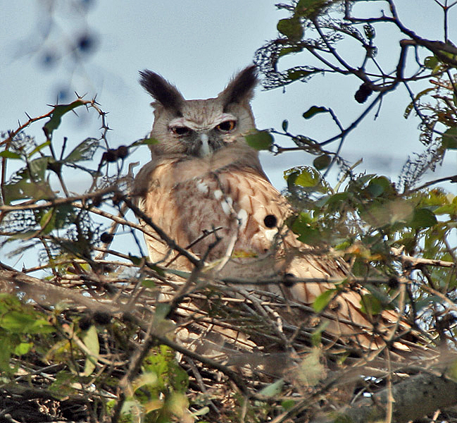 Dusky Eagle Owl Bubo coromandus at Keoladeo National Park, Bharatpur, Rajasthan, India.